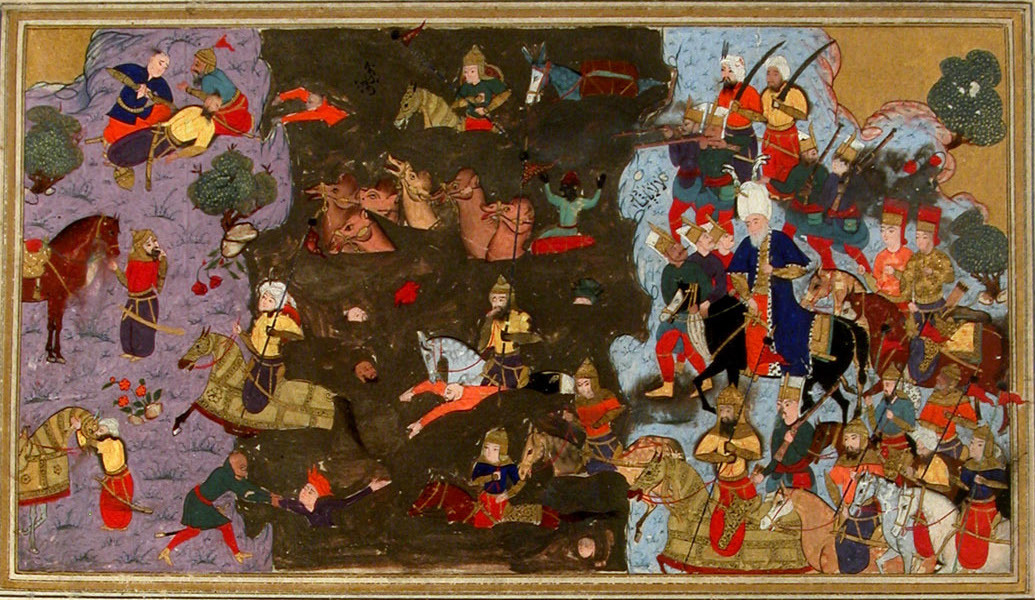 On the small Kanak (or Kinik) tributary of the Alazani, above Khoranta, there was heavy fighting between the Ottomans and the Persians in 1578